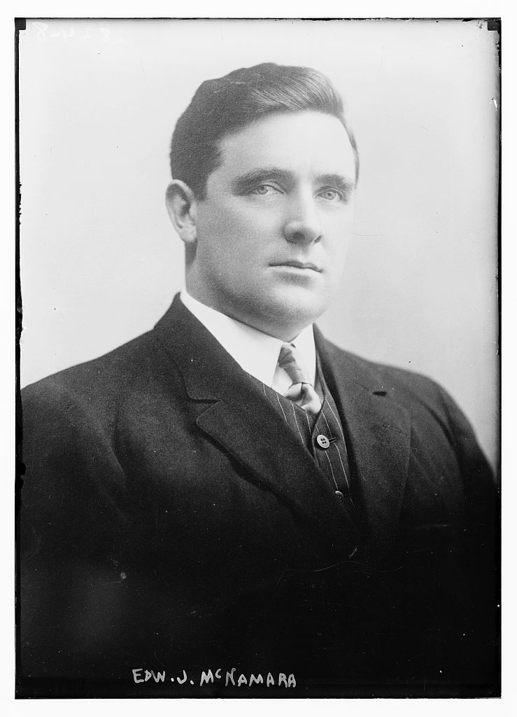 Bain News Service,, publisher. Edward McNamara [between ca. 1910 and ca. 1915] 1 negative : glass ; 5 x 7 in. or smaller. Notes: Title from unverified data provided by the Bain News Service on the negatives or caption cards. Forms part of: George Grantham Bain Collection (Library of Congress). Format: Glass negatives. Repository: Library of Congress, Prints and Photographs Division, Washington, D.C. 20540 USA, General information about the Bain Collection is available at Persistent URL: Call Number: LC-B2- 2824-8